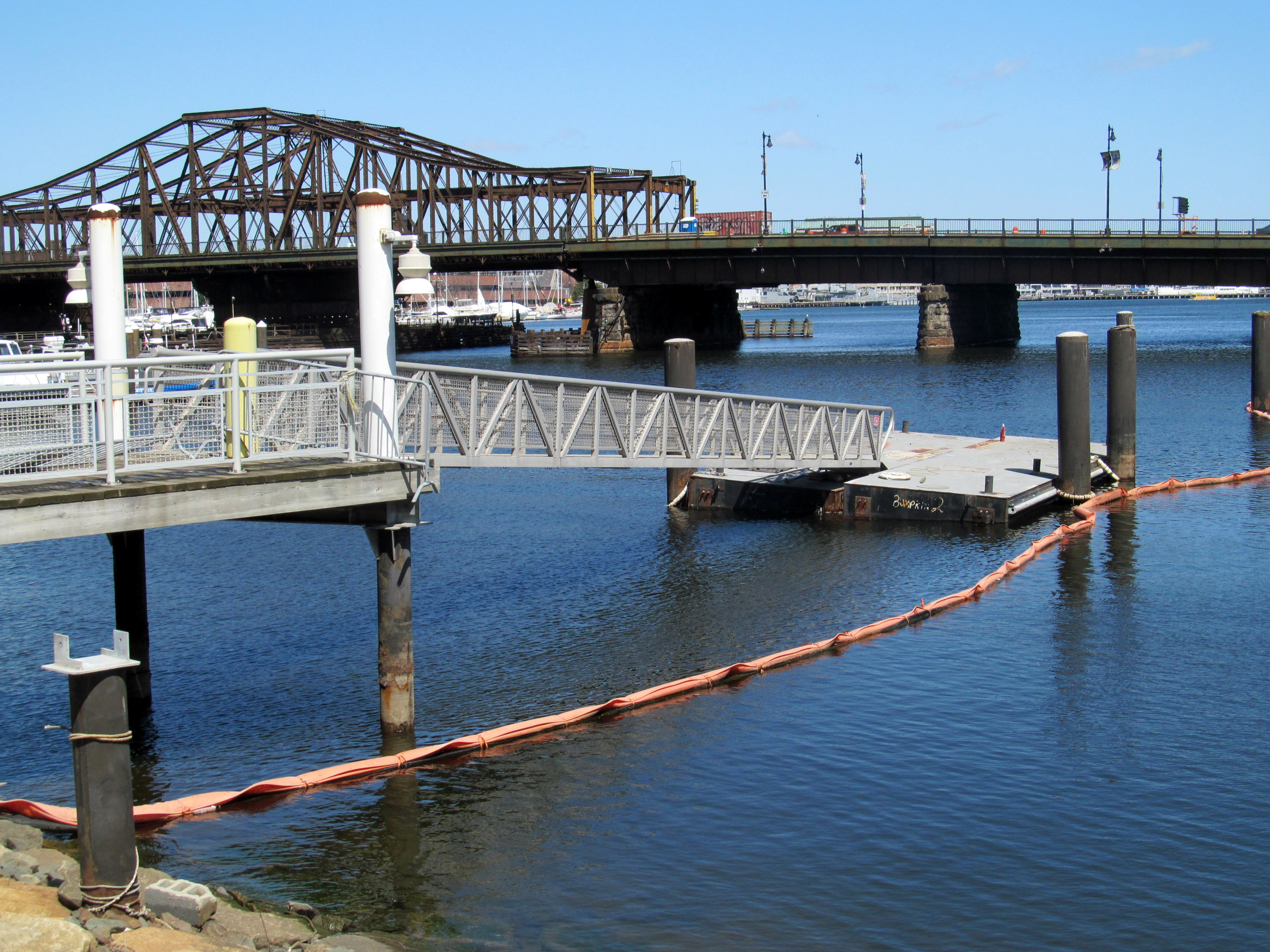 Water taxi dock near Lovejoy Wharf and North Station, with the Charlestown Bridge behind. This dock was used for MBTA Boat service from 1997 to 2005.